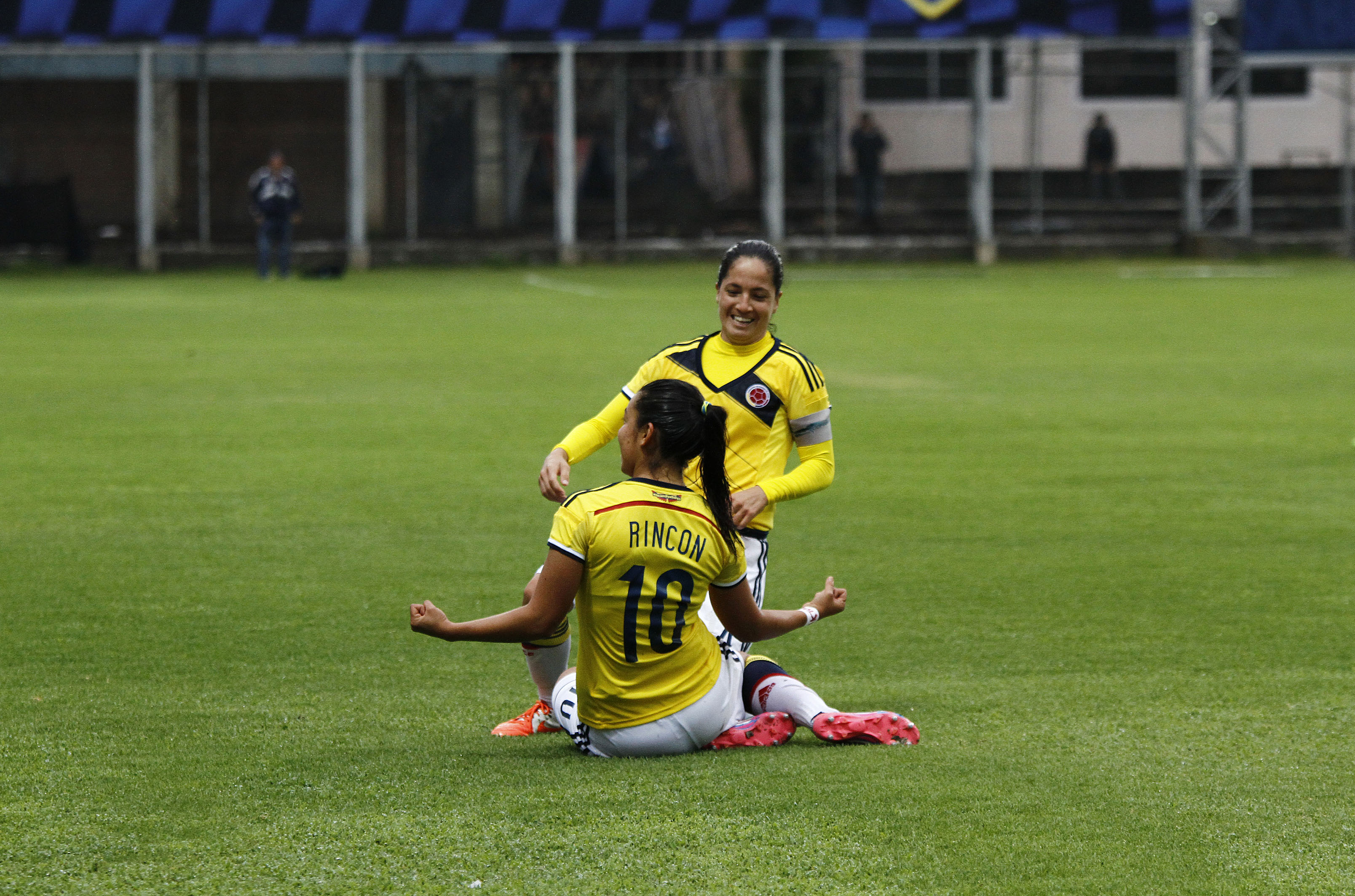 Colombian footballer Yoreli Rincón (10)